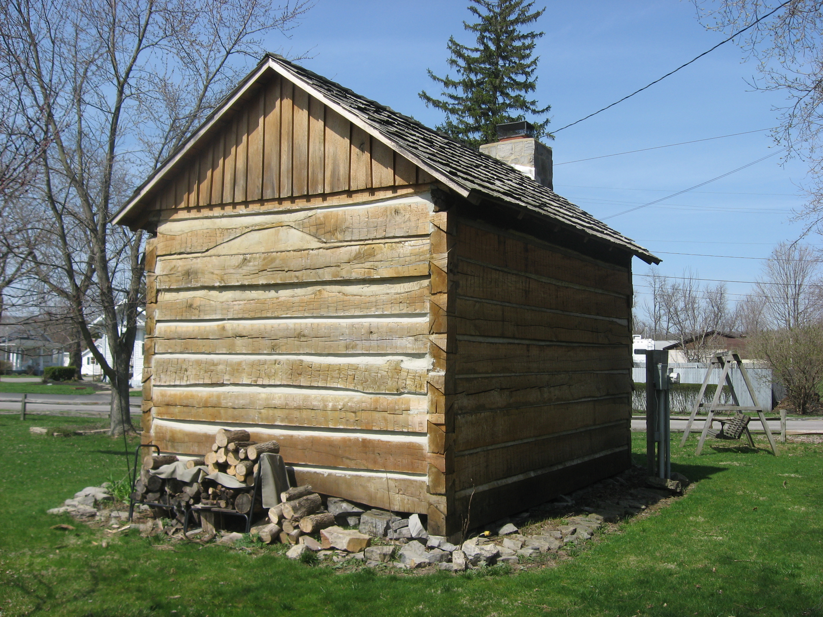 Southern and eastern sides of the Ebeneezer Zane Cabin, located in the Helen Wonders Blue Memorial Park in Zanesfield, Ohio, United States. Built circa 1805, it was moved to its current site and rebuilt in 1997.